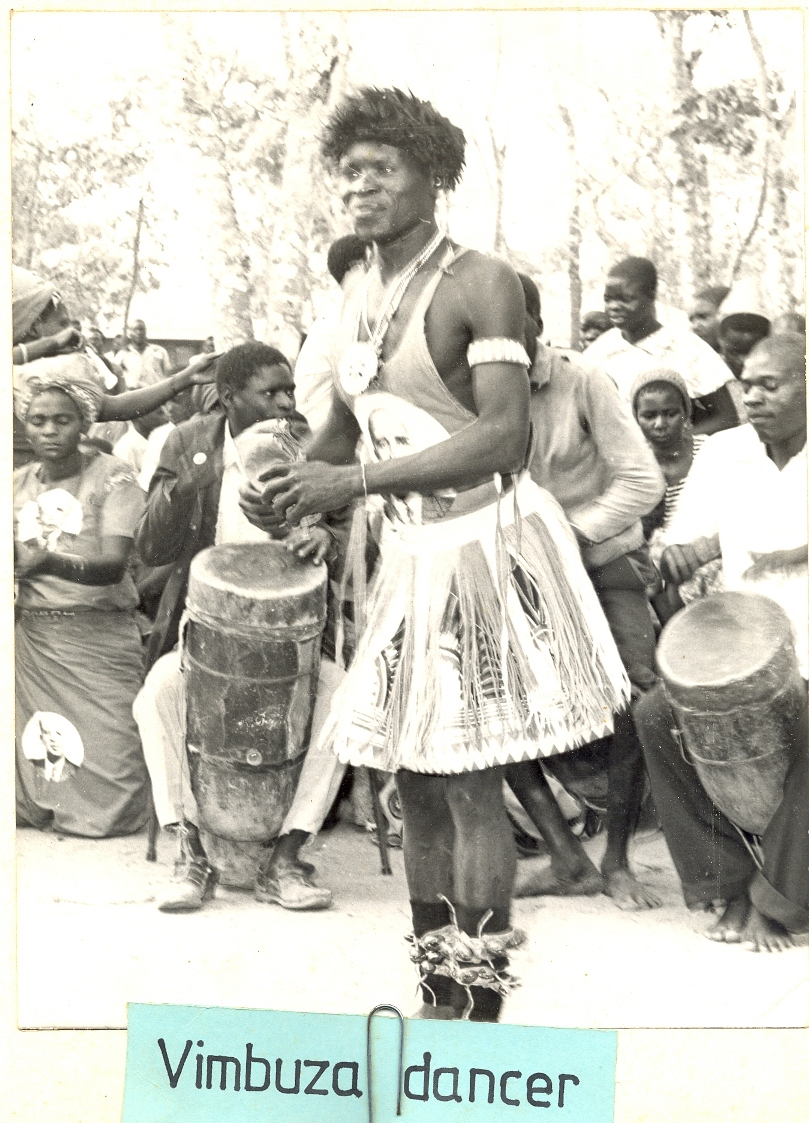 Vimbuza dancer from Malawi